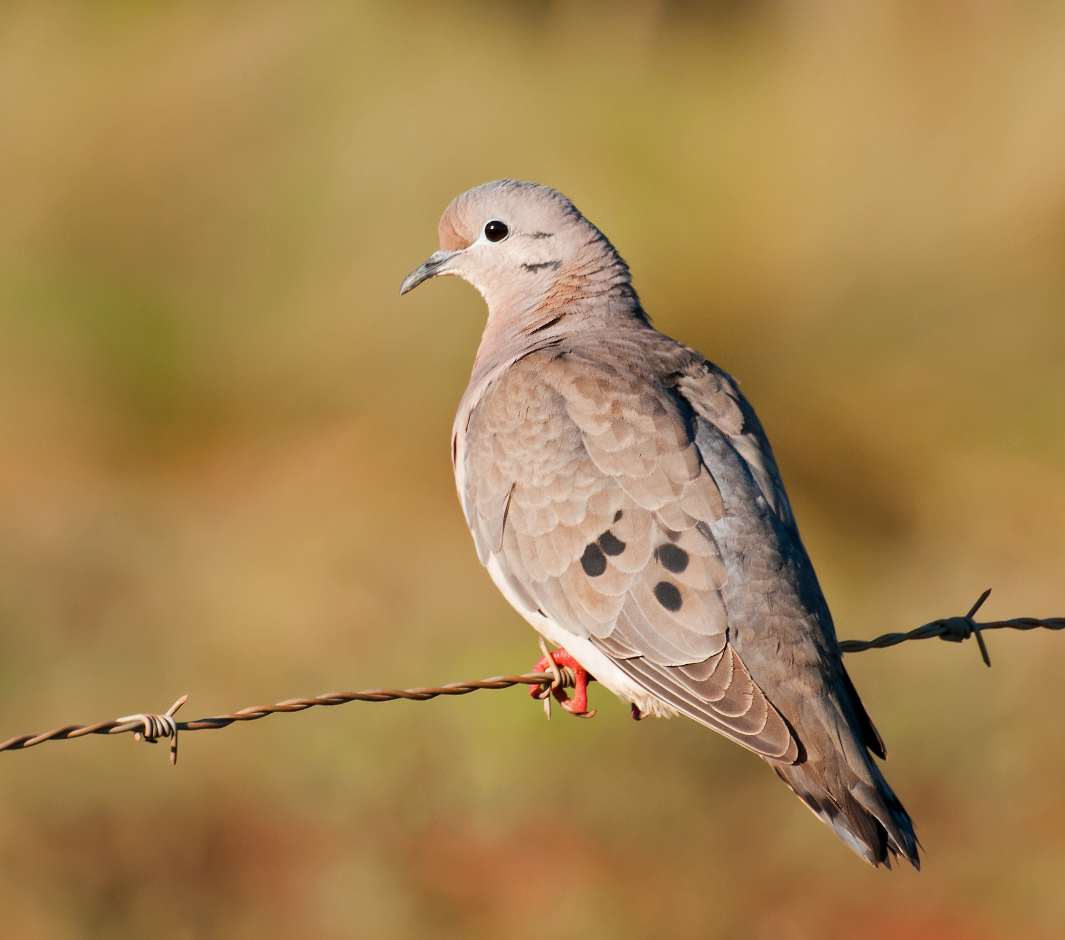 An Eared Dove in Piraju, São Paulo, Brazil.